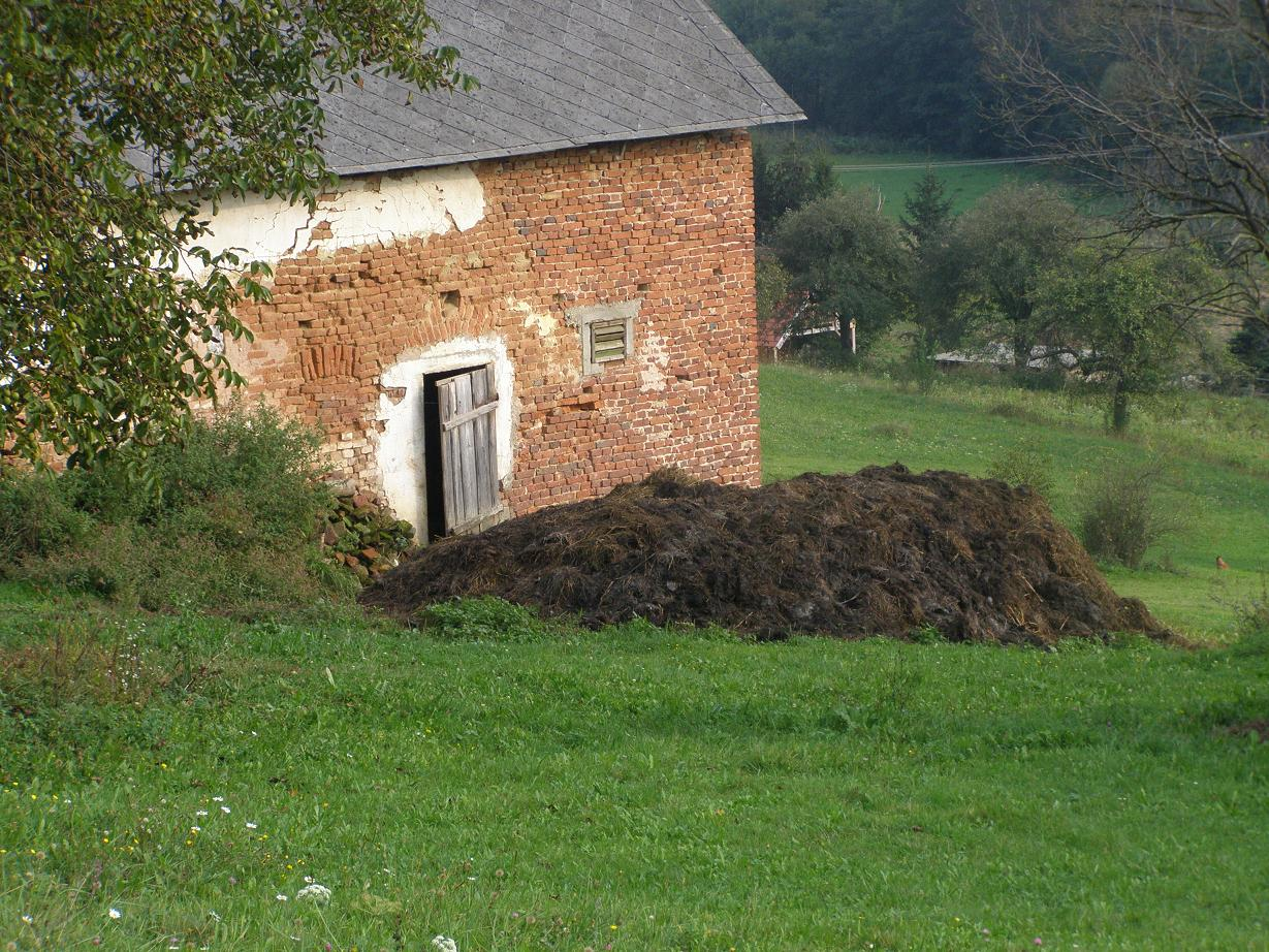 Stable-door, Permise (Kétvölgy)